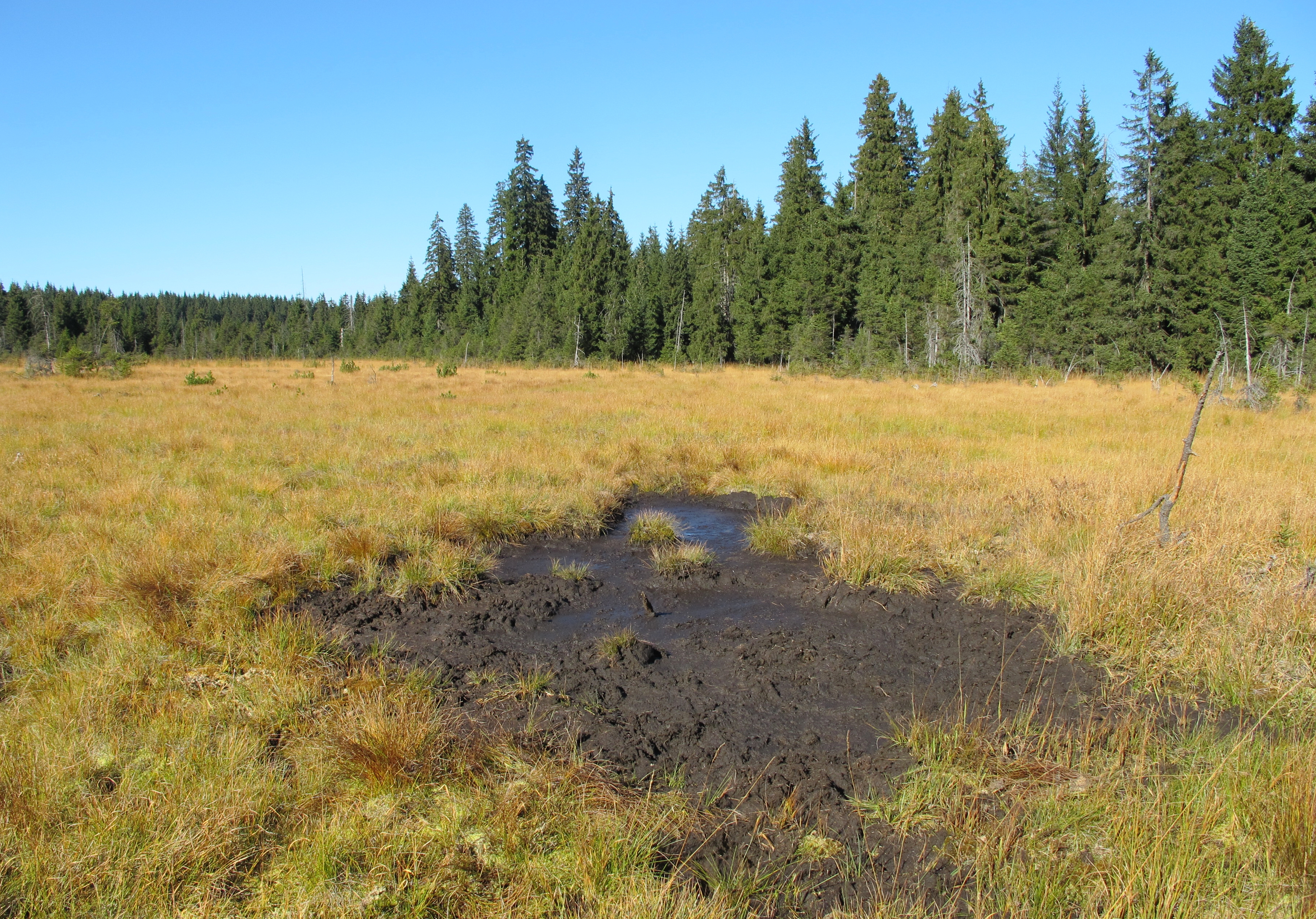 Nature reserve Nová louka near Bedřichov in Jizera Mountains, Jablonec nad Nisou District in Czech Republic